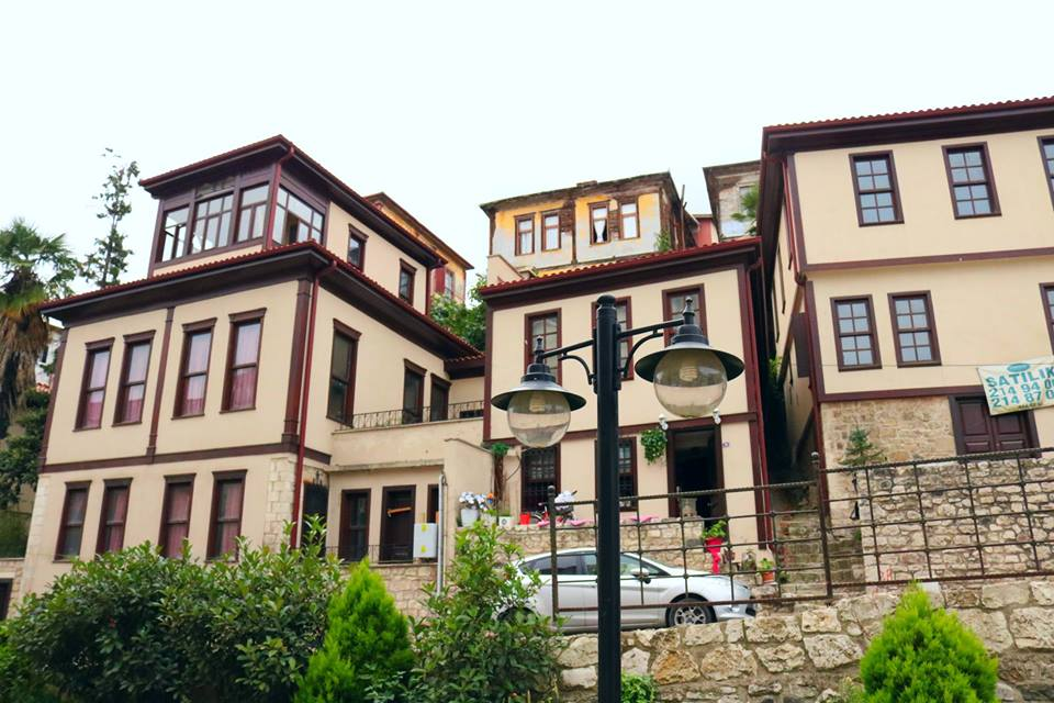 Ordu wooden houses